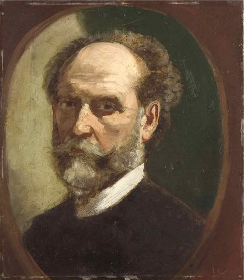 Francisco José Resende (1825-1893), self-portrait.